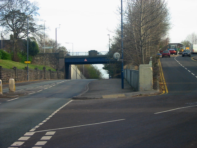 Holden Bridge, Sneyd Green. Looking NE along the A53 towards Leek from Stoke on Trent. Holden bridge carries the B5049 Hanley Road, one of the major routes into the city centre, over the A53